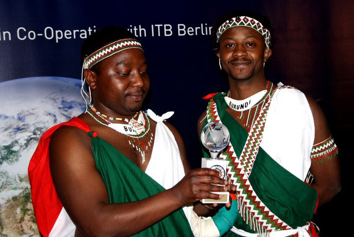 Burundi, the best African stand in 2011.